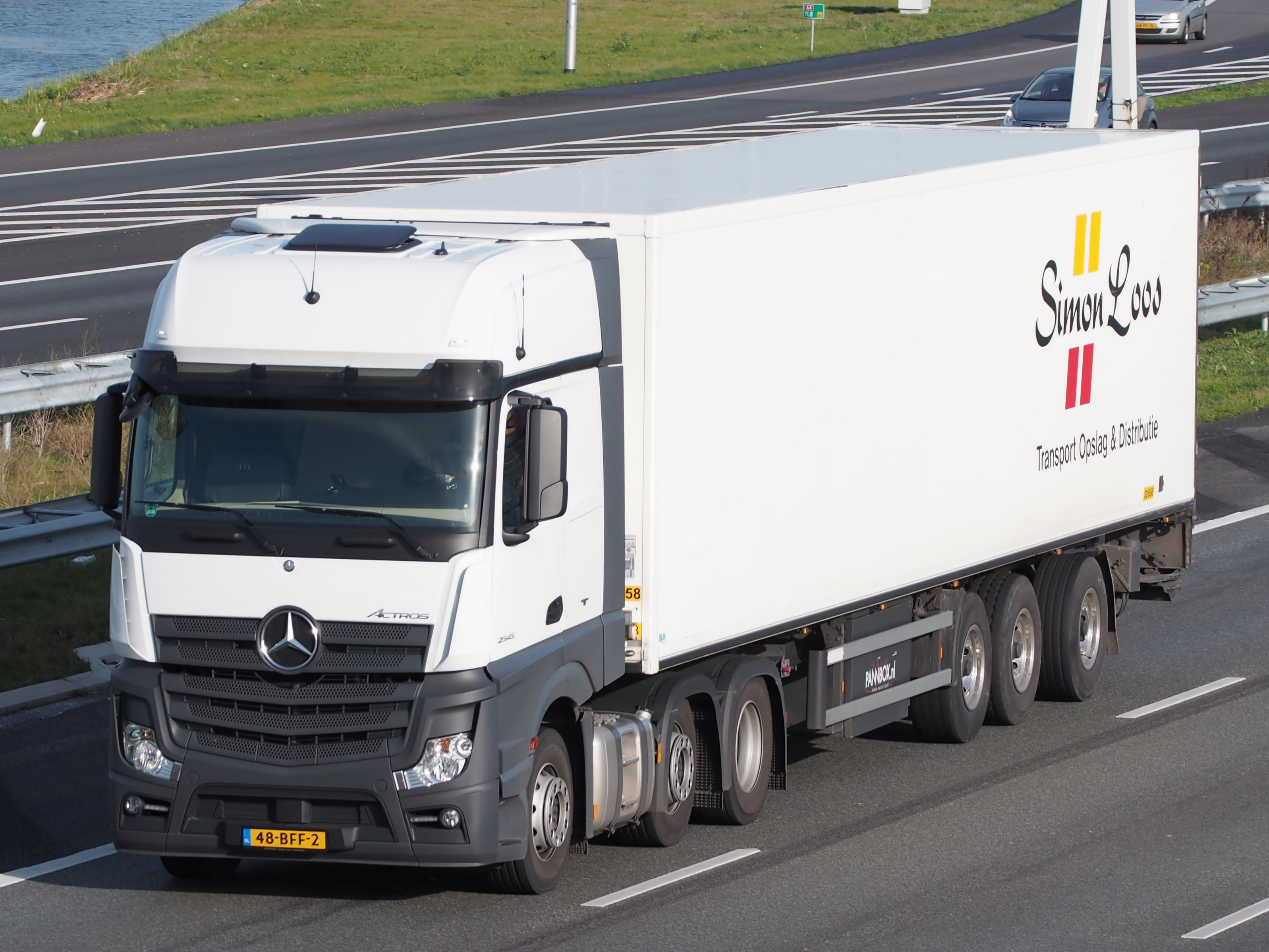 Photographed on the A4 near Hoofddorp, the Netherlands.